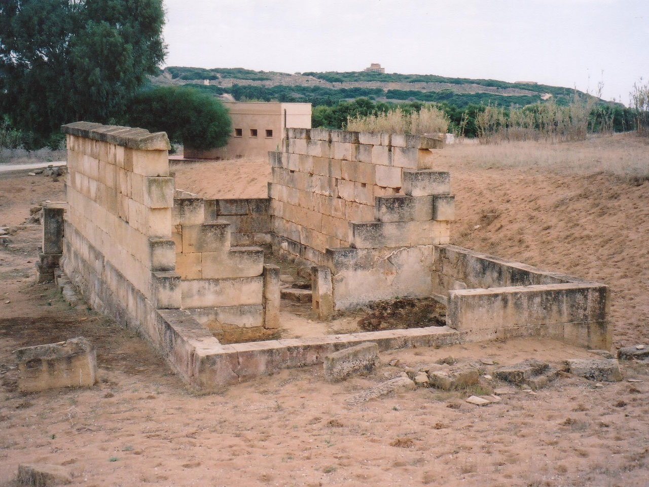 The Hekatombion is the Western Group alongside the Temple of Demeter Malaphoros and Zeus Melikhos. Selinunte, Sicily, Italy.